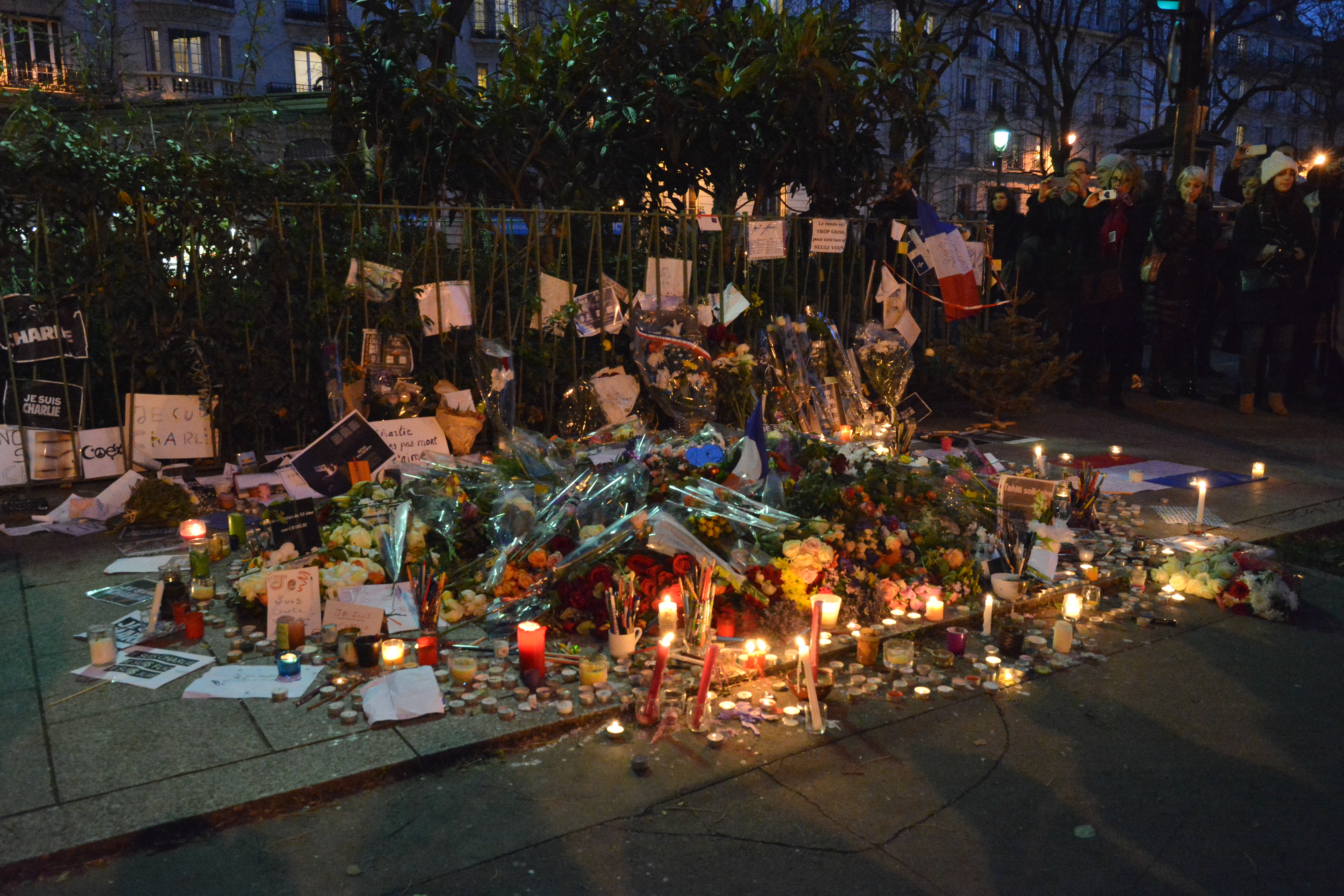 Memorial to Ahmed Merabet, killed here, on boulevard Richard Lenoir, by Chérif and Saïd Kouachi, on January 7th, 2015.